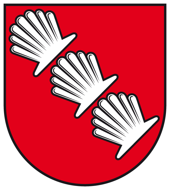 Coat of Arms of Eberhardzell, part of Eberhardzell